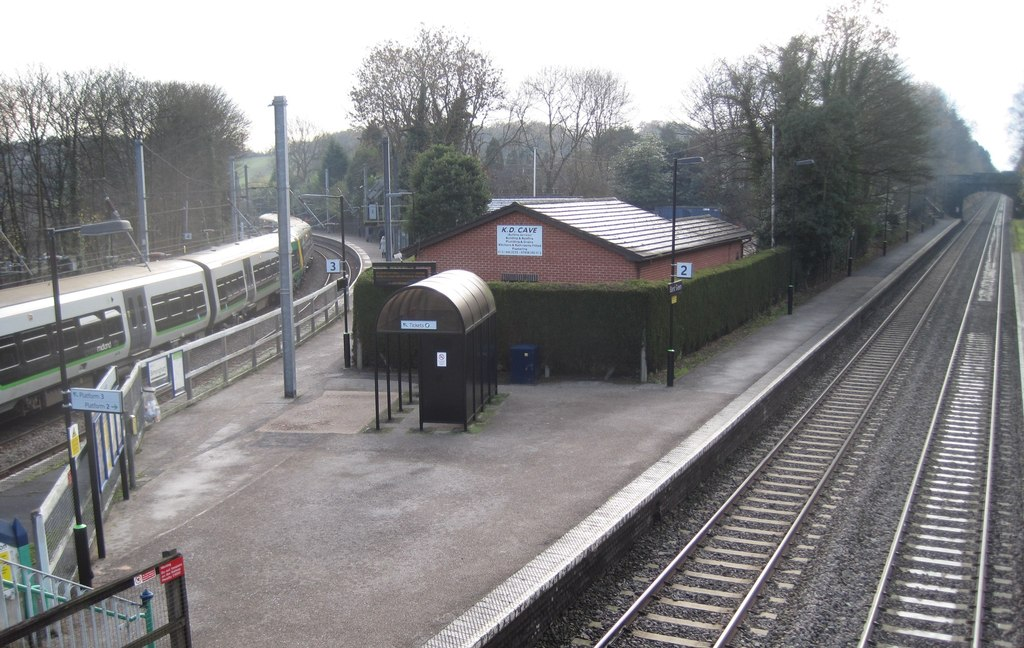 Barnt Green railway station, Worcestershire Opened in 1840 by the Birmingham and Gloucester Railway, later part of the Midland Railway. View south west towards Alvechurch and Redditch (left) on the former 'Gloucester Loop' line, and Blackwell and Gloucester (straight on).